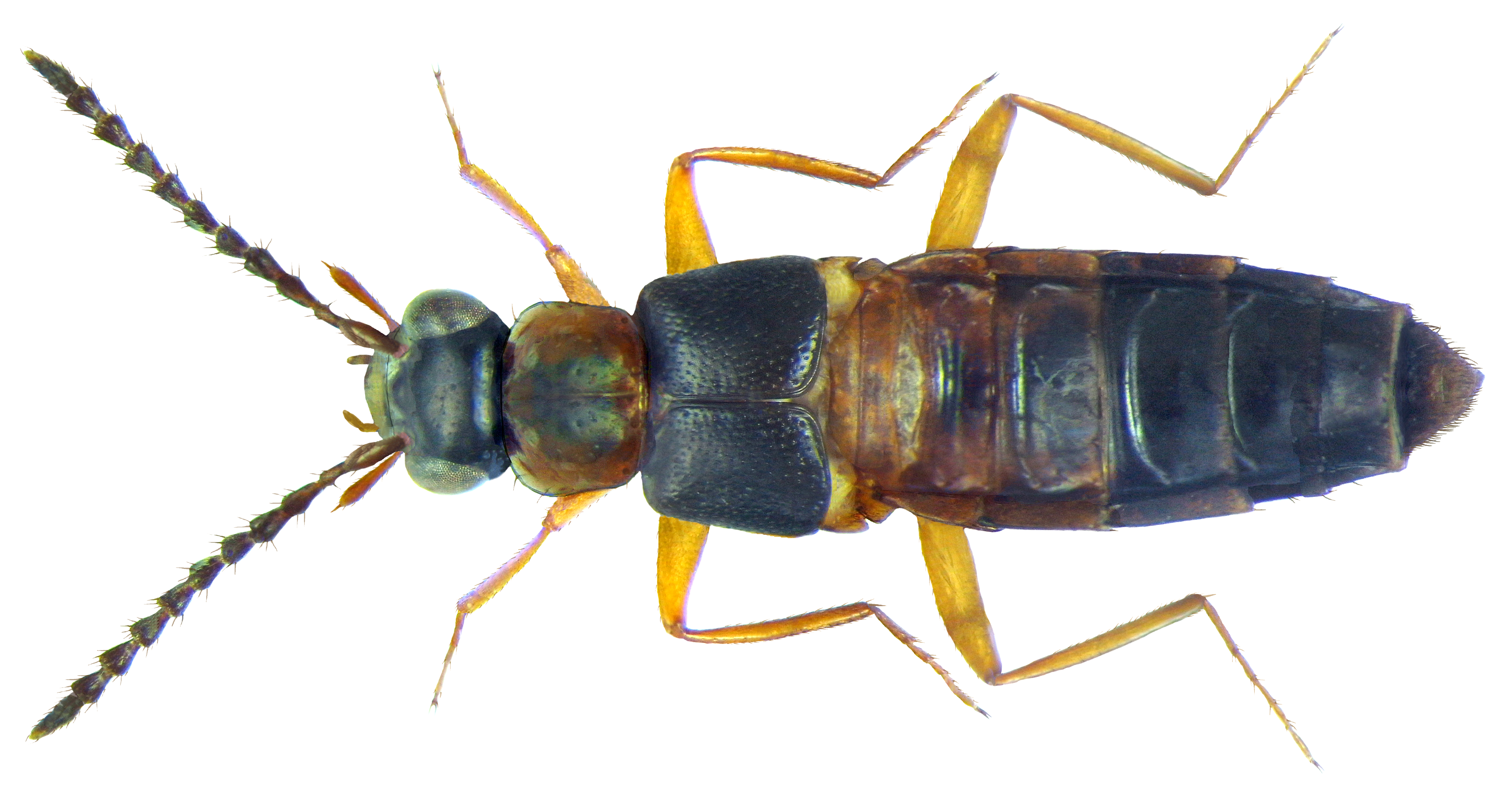 Family: Staphylinidae Size: 6.7 mm Location: Malaysia, Langkawi, Berjaya, the light U.Schmidt leg, 15.XI.2009; det. R.Pace, 2011 Photo: U.Schmidt, 2012